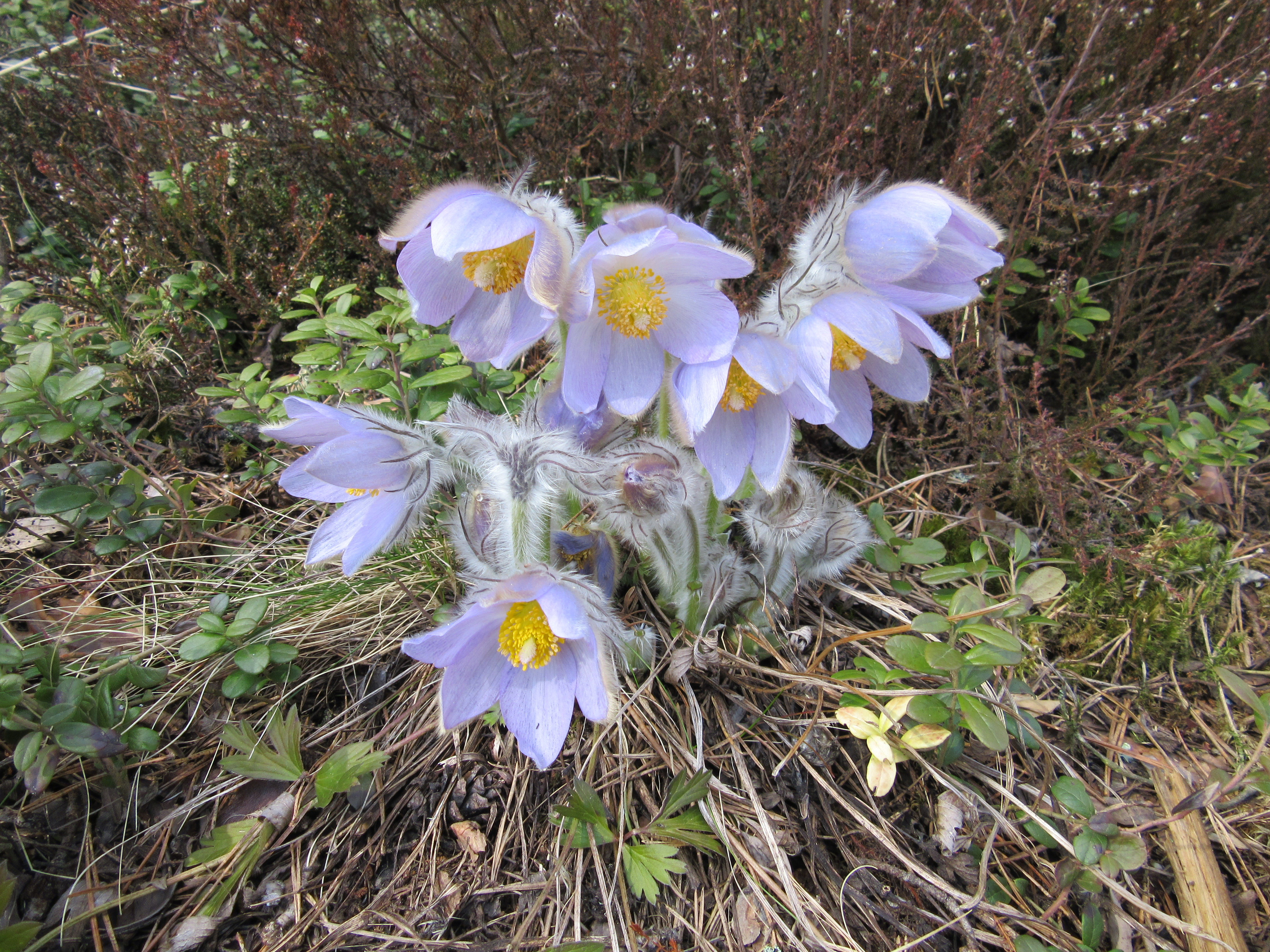 Pulsatilla patens and Pulsatilla vernalis hybrids in Hämeenlinna, Finland.